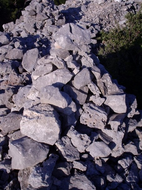 The ruins of Illyric graves on Mljet, Croatia